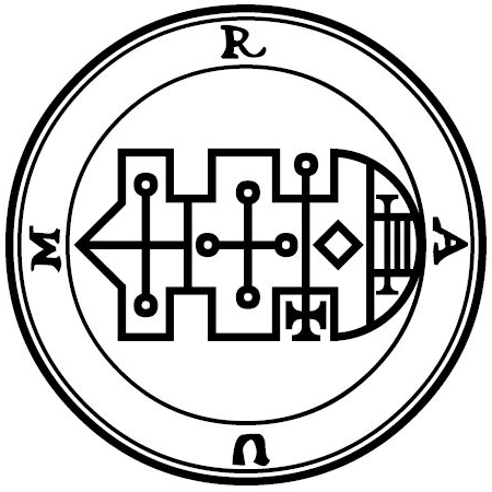 Raum seal, THE BOOK OF THE GOETIA OF SOLOMON THE KING (1904)